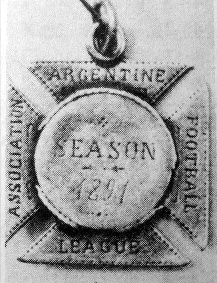 Medals won by St. Andrew's FC in 1891 after defeating Old Caledonians FC 3-1. St. Andrew's is considered the first Argentine Primera División champion.